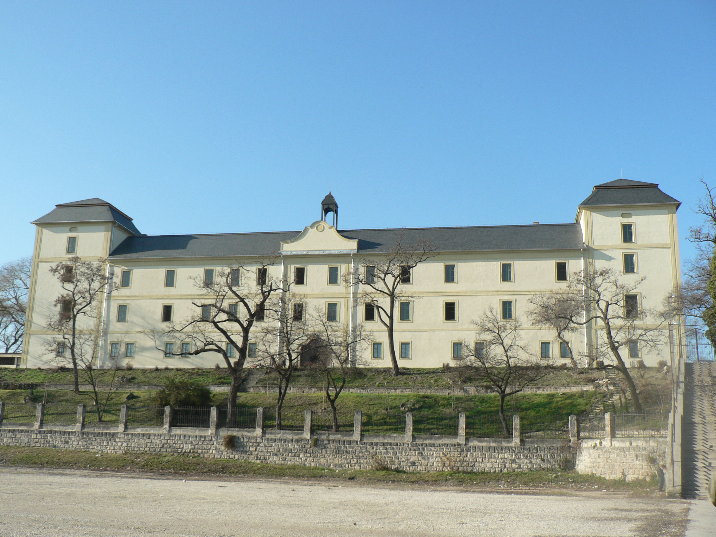 Castle of Zichy, Zsambek